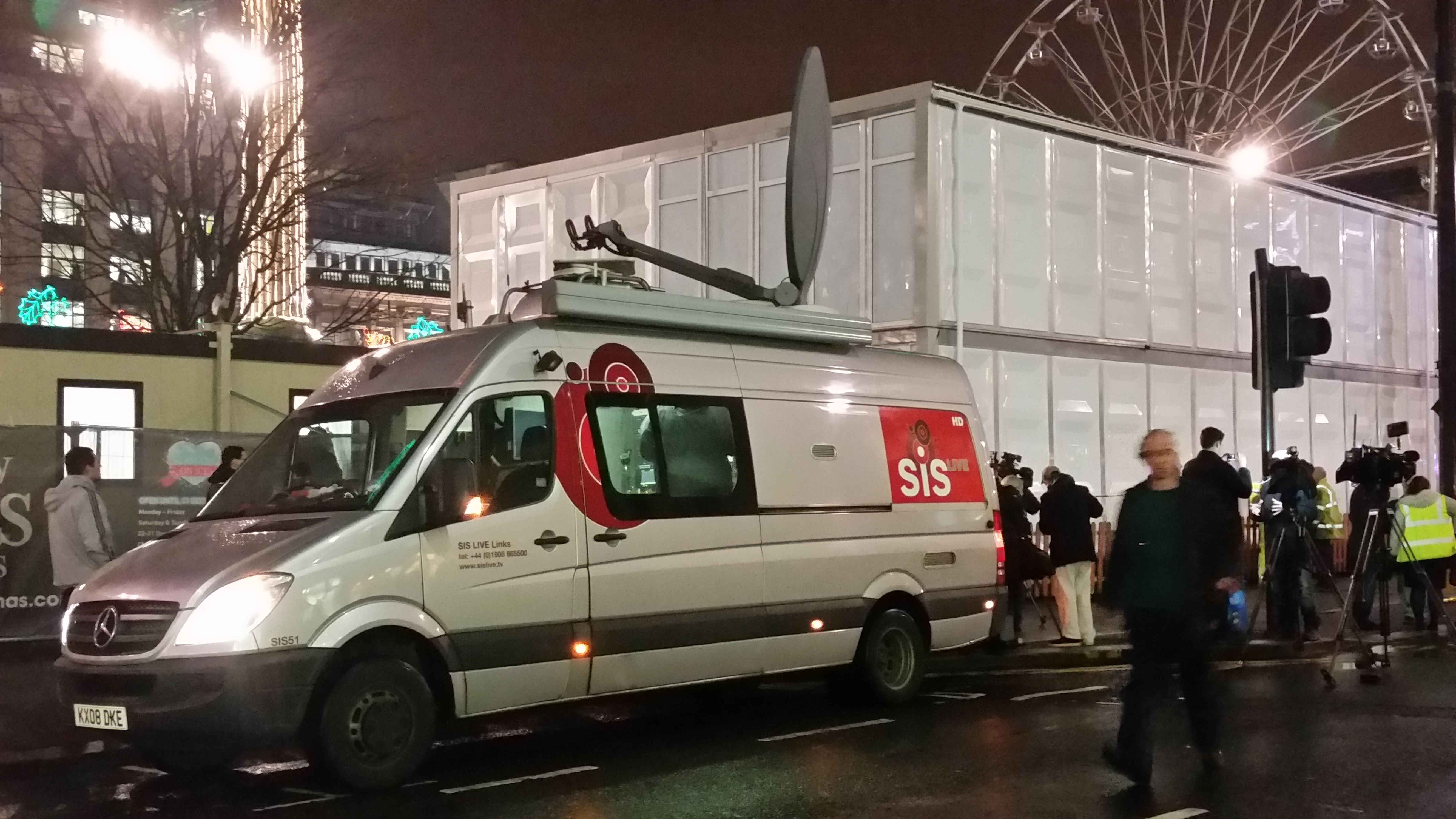 Glasgow Bin Lorry Crash George Square, Glasgow, United Kingdom